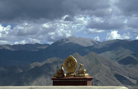 The Himalayas from a fitting backdrop for roof-top symbols of Tibetan Buddhism.